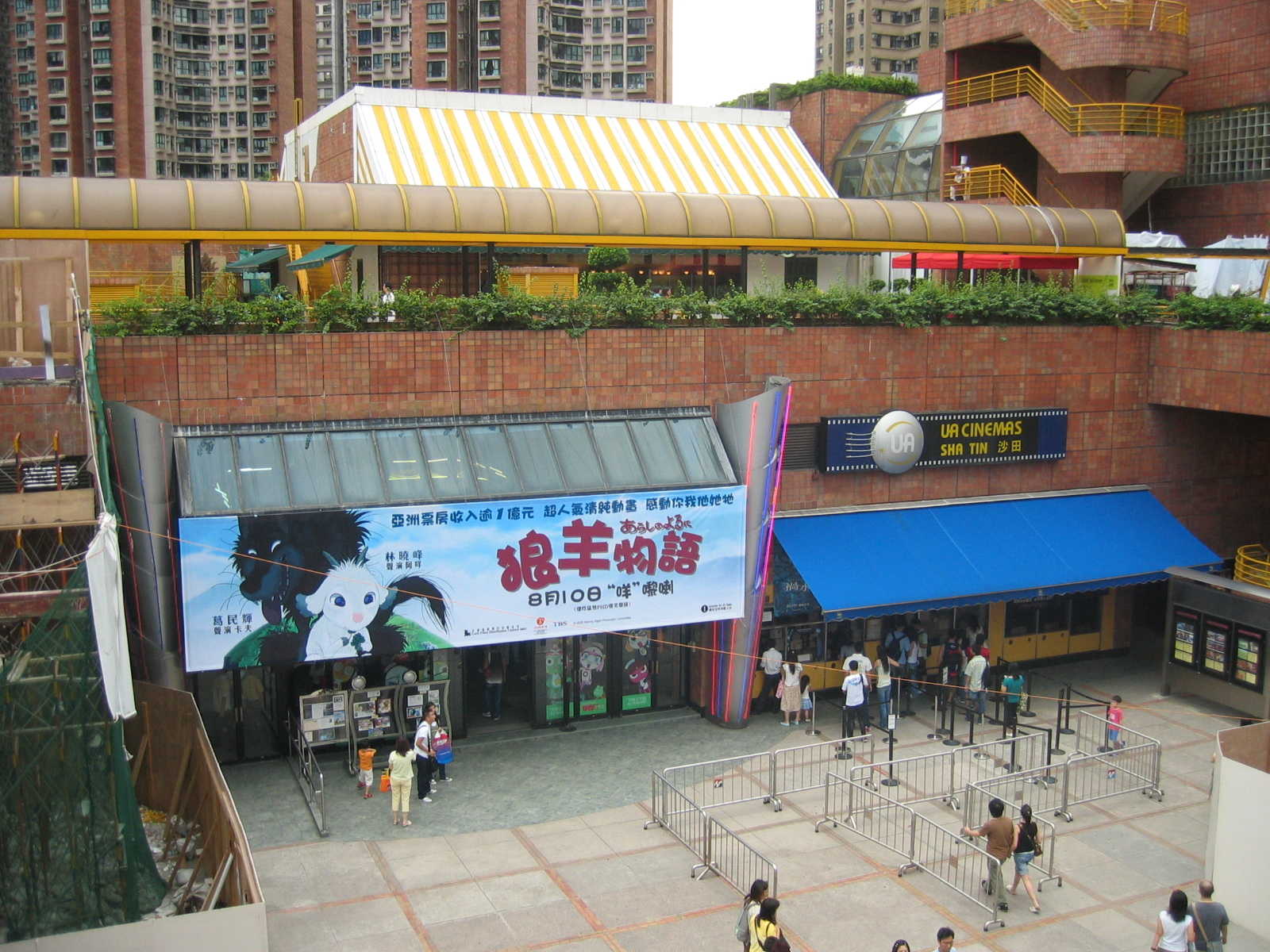 UA Cinema in Shatin New Town Plaza before demolished